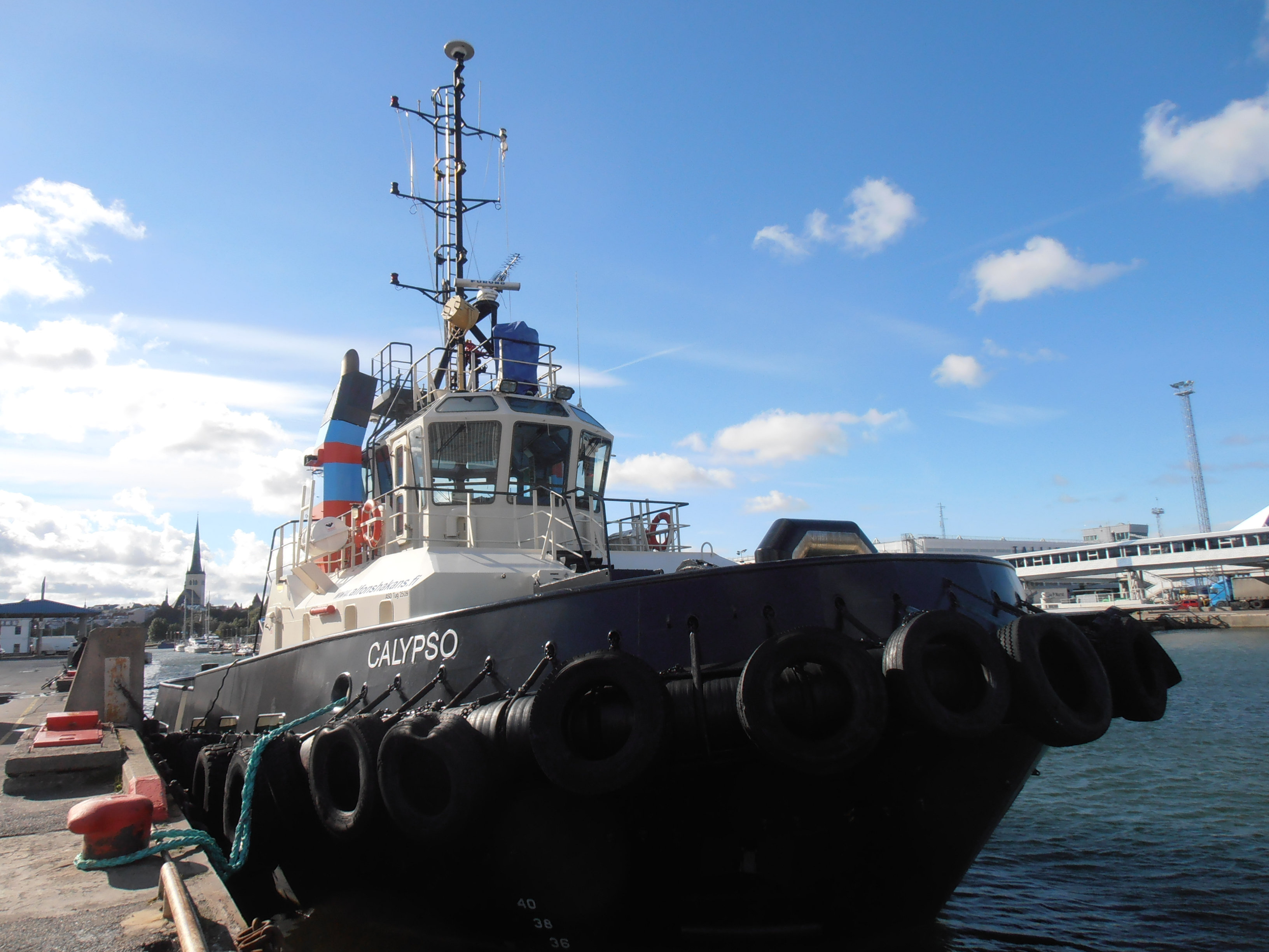 Tugboat Calypso at Quay 8 Tallinn 9 September 2012